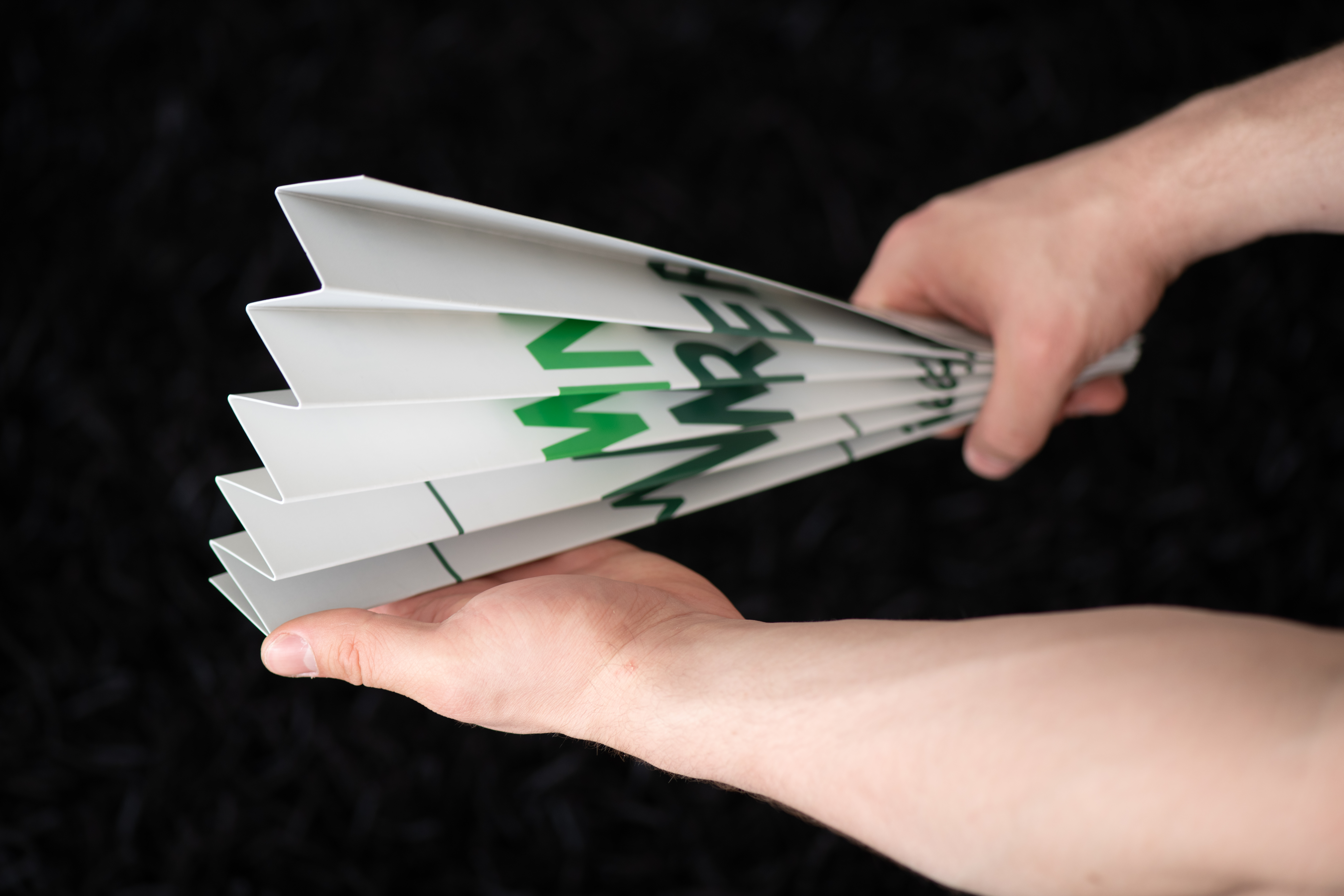 Noisemaker